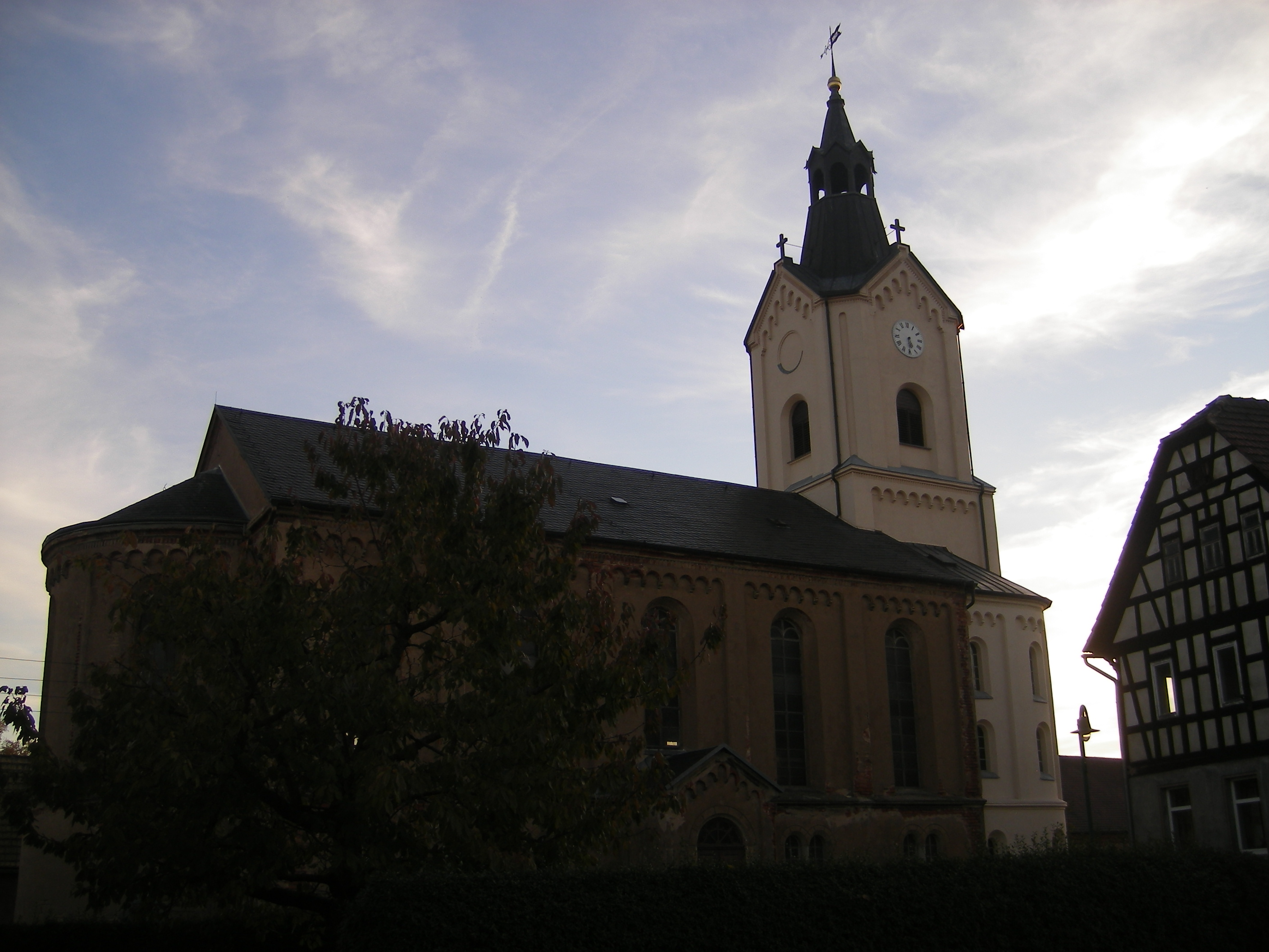 Church in Großröda in Altenburger Land (Germany)